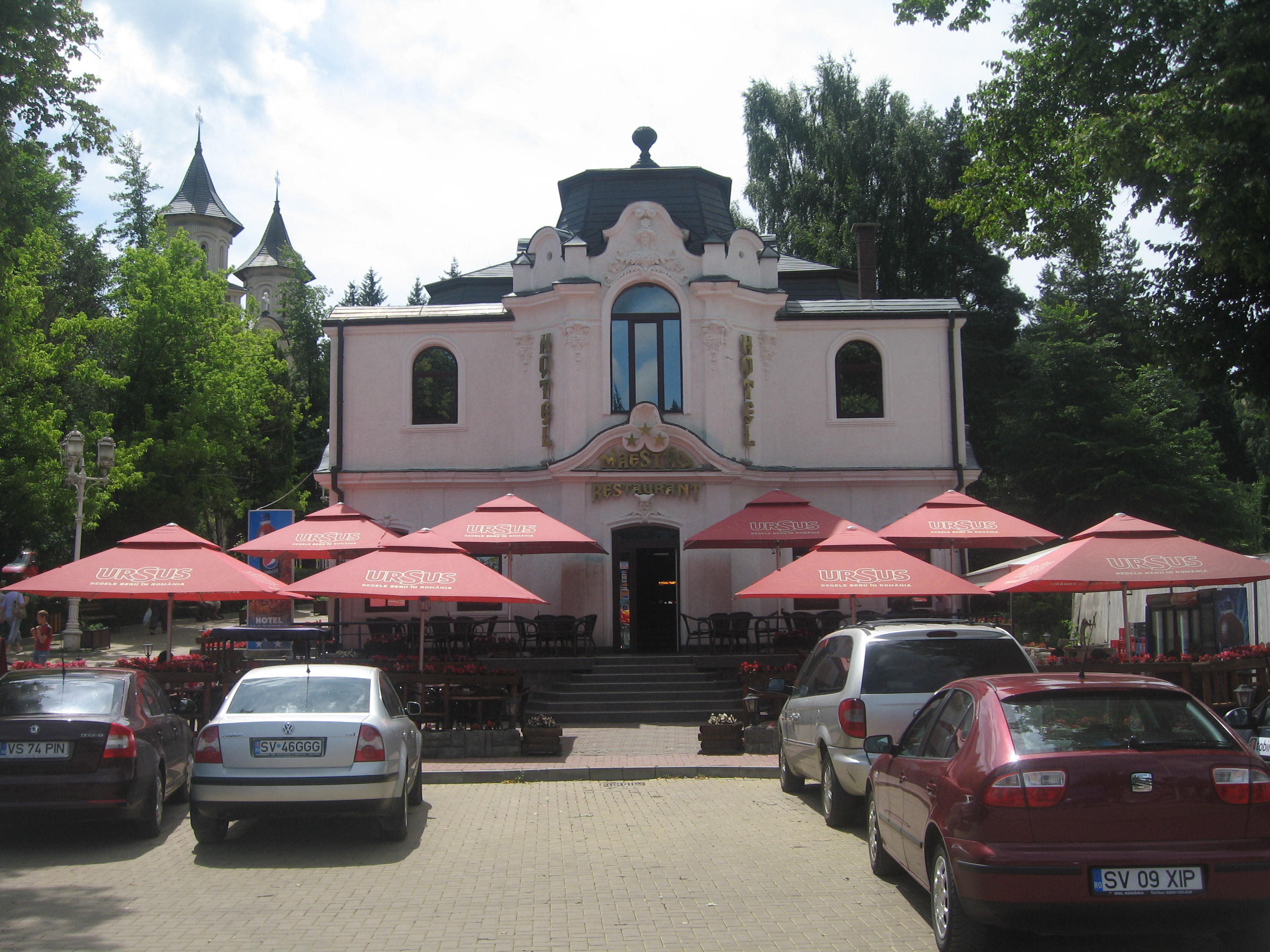 Vatra Dornei, Romania - Unirea Fountain